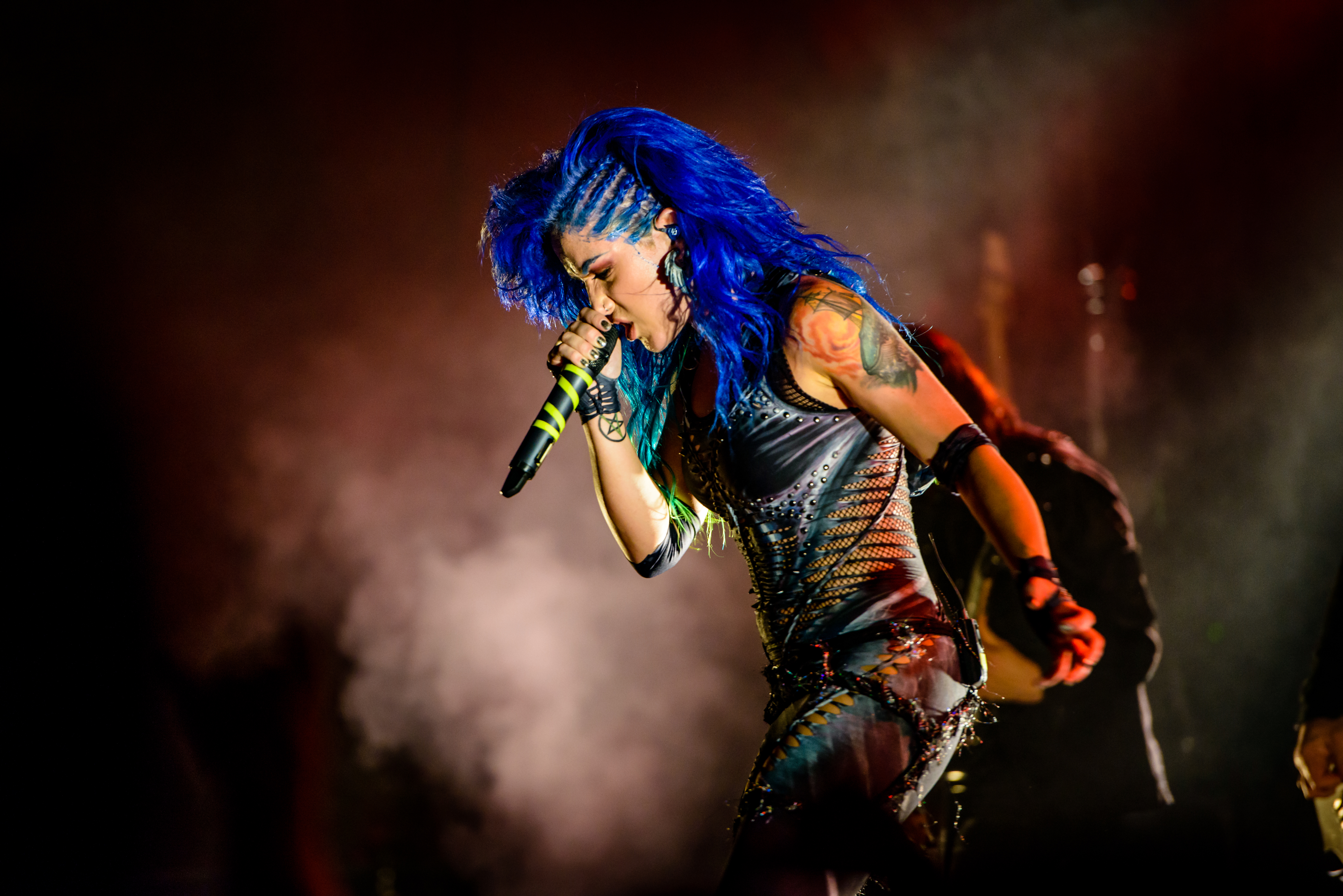 Arch Enemy; RheinRiot Köln 2016